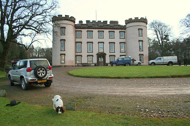 Hatton Castle on the morning of a shoot